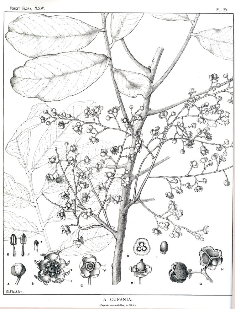 Cupaniopsis anacardioides (A. Rich.) Radlk., Plate 20 from "Forest Flora of New South Wales" by Joseph Henry Maiden (1859–1925)